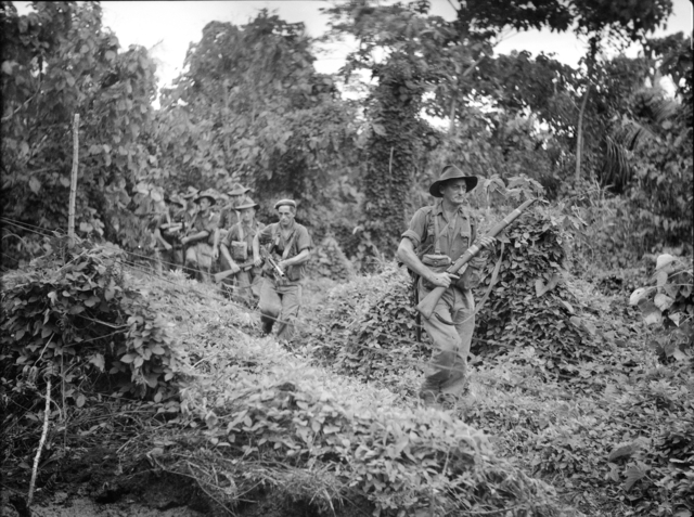 C Company, 19th Infantry Battalion around the Waitavalo Plantation, in the Wide Bay area